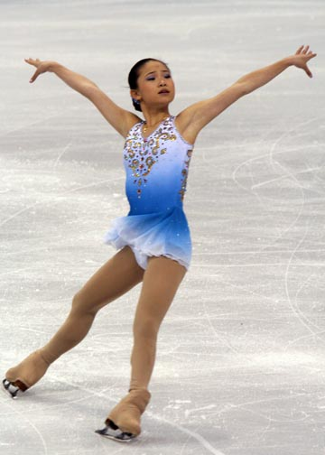 Caroline Zhang performs an outside spread eagle at the 2008 Skate Canada.